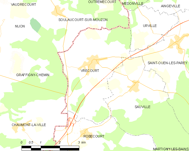 Map of French municipality Vrécourt